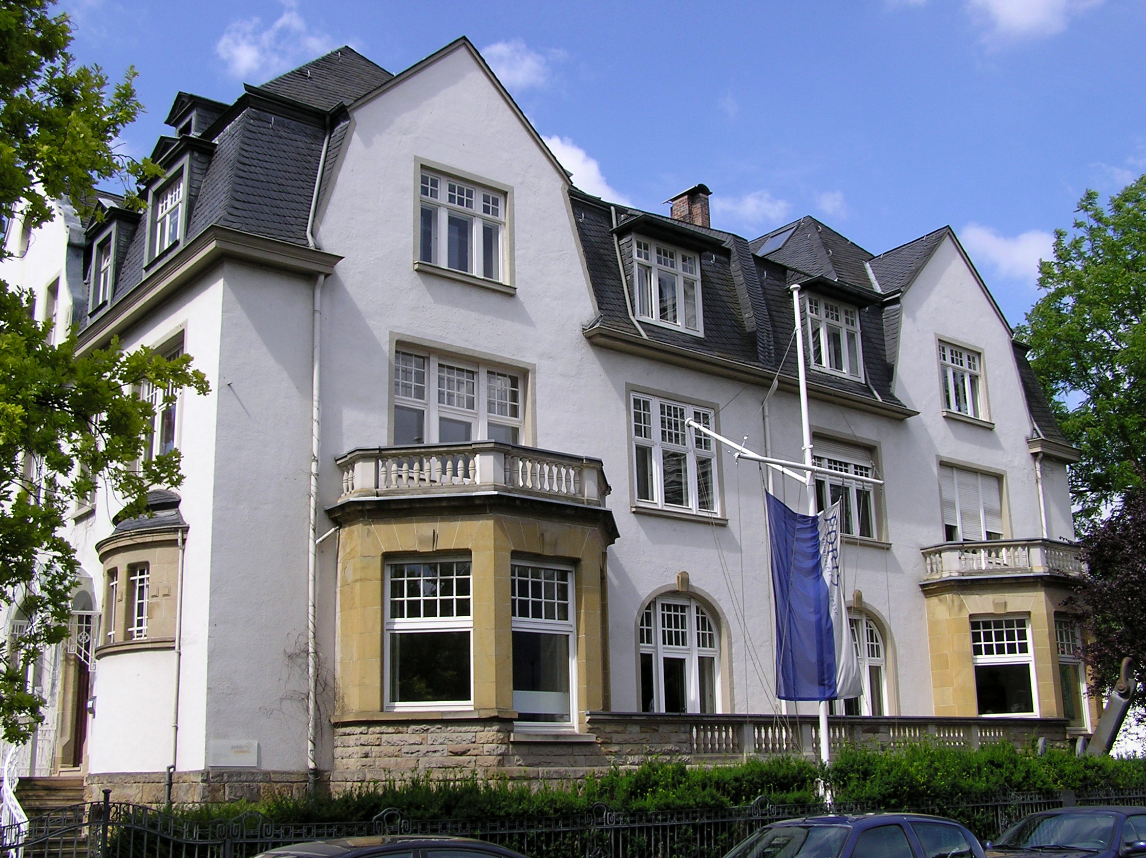 Former state representation of Hamburg in the former government and parliament quarter (present Bundesviertel) in the "Federal City" Bonn, now headquarters of the Foris AG.